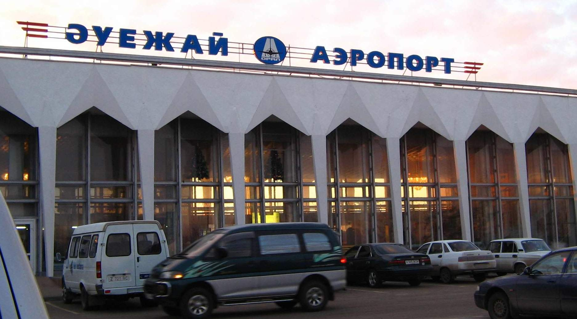 Uralsk Airport Terminal